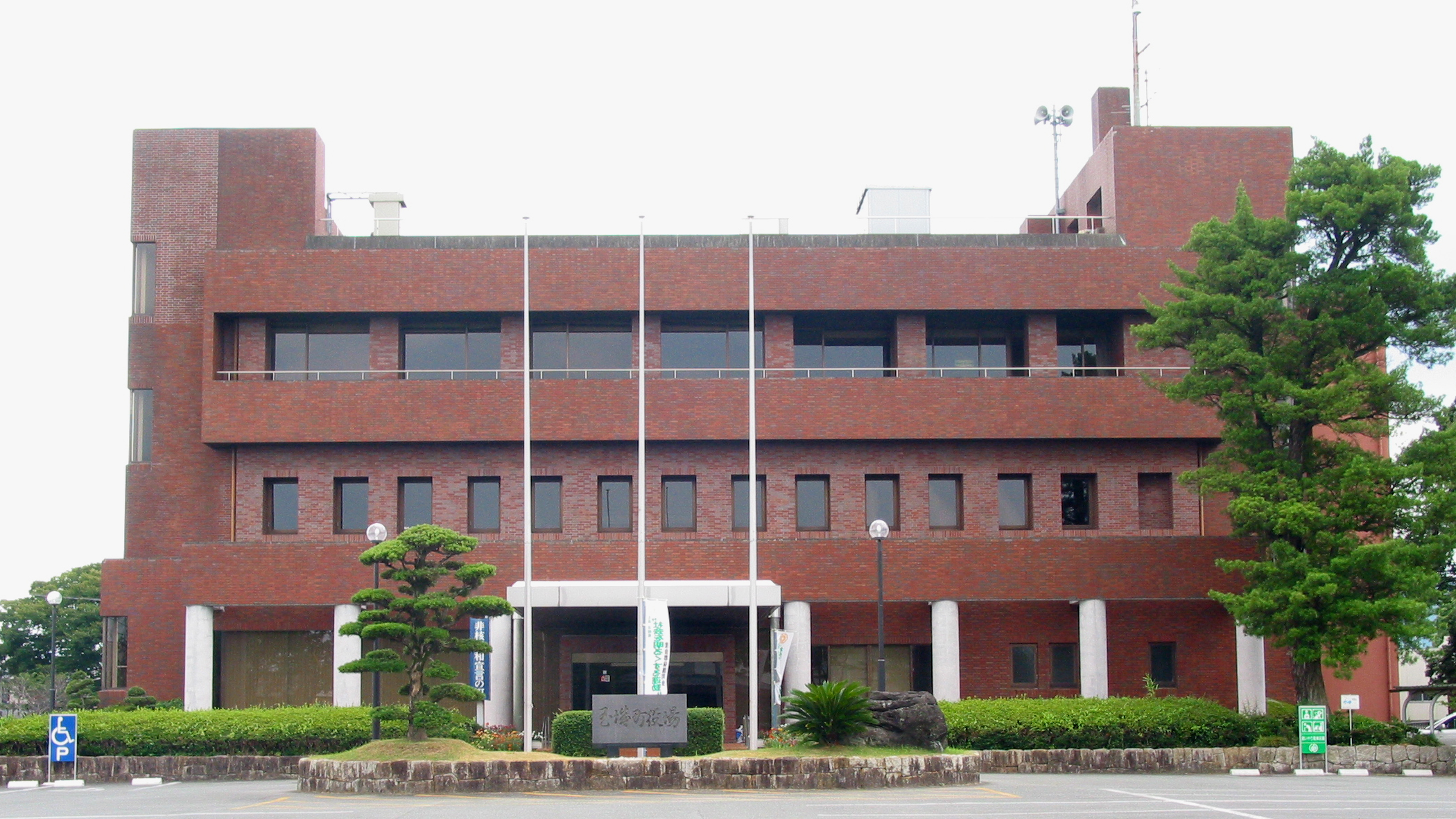 Tamaki townhall Tamaru Tamaki Watarai Mie Pref., Japan.